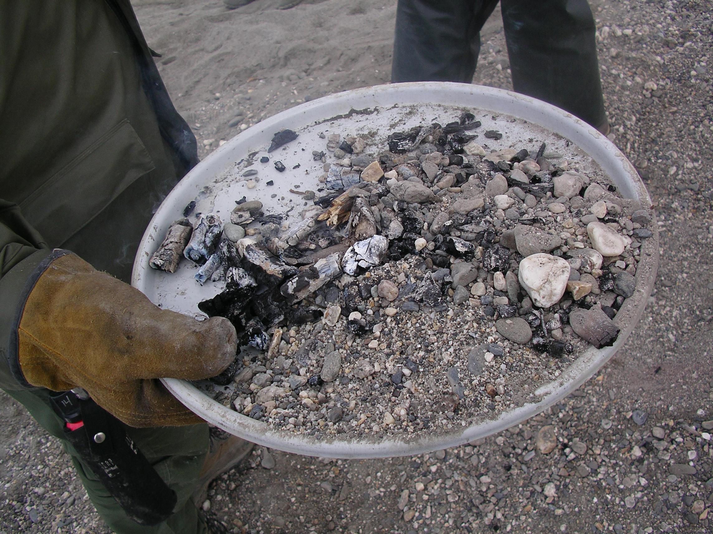 A Ranger demonstrates how to build a Leave No Trace campfire.